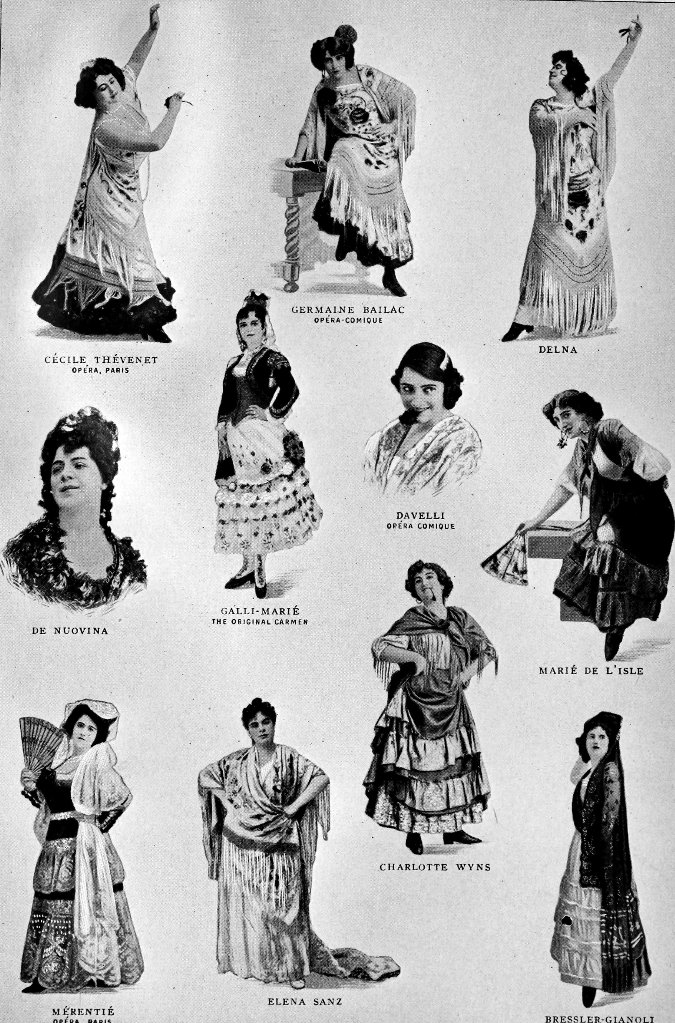 Famous "Carmens" of the Past Title: The Victrola book of the opera : stories of one hundred and twenty operas with seven-hundred illustrations and descriptions of twelve-hundred Victor opera records Year: 1917 (1910s) Authors: Victor Talking Machine Company Rous, Samuel Holland Subjects: Operas Publisher: Camden, N.J. : Victor Talking Machine Co. Text Appearing Before Image: SETTING OF ACT I Habanera (Love is Like a Wood-bird) By Jeanne Gerville-Reache, Contralto (In French) 88278 12-inch, $3.00 By Emma Calve, Soprano (In French) 88085 12-inch, 3.00 By Maria Gay, Mezzo-Soprano (In Italian) 92059 12-inch, 3.00 By Geraldine Farrar, Soprano (In French) 87210 10-inch, 2.00 By Sophie Braslau, Contralto (In French) 64469 10-inch, 1.00 Though often attributed to Bizet, the air was not original with him, but was takenfrom Yradiers Album des Chansons Espagnoles. The refrain: Allegretto quasi Andantino. La • mour est en - fant de BoAnd Loves a gyp • sy boy so heme II na ja • raais, ja-tnais con-nu detrue. He ev - er was a rov-er free as loi,air/ is a particularly fascinating portion of the number. Double-Faced Record—See page 69. 55 Text Appearing After Image: MERENTIEOPERA, PARIS ESSLER-GIANOLIOPERA COMIQUE Some Famous Carmens of the Past VICTROLA BOOK OF THE OPERA-BIZETS CARMEN